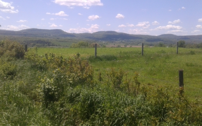 Mount Independence by Cherry Valley, New York. Taken May 2019.